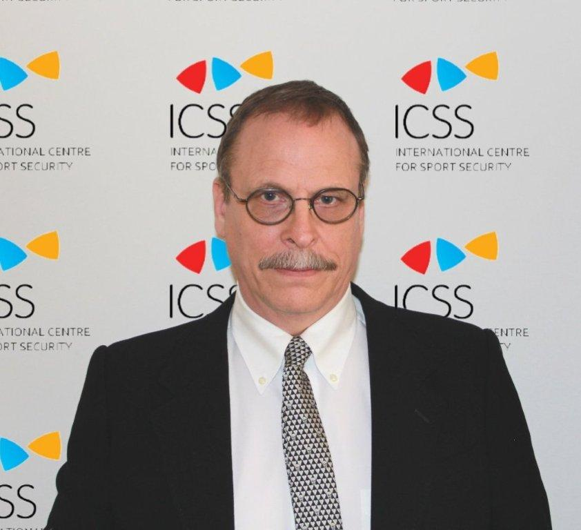 Photo of Chris Eaton to replace original